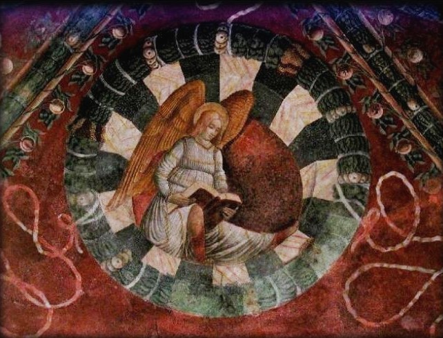 Dettaglio della volta. L'angelo, San Matteo, 1475-77, La Cappella del Collegio Castiglioni